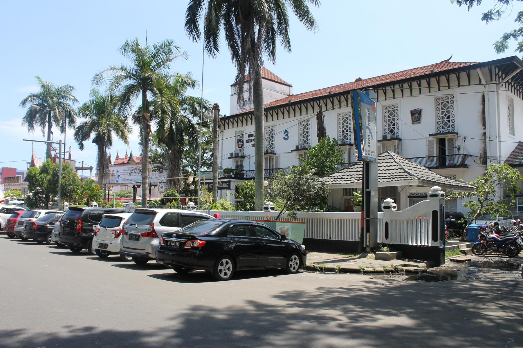 Balai-Kota-Padang